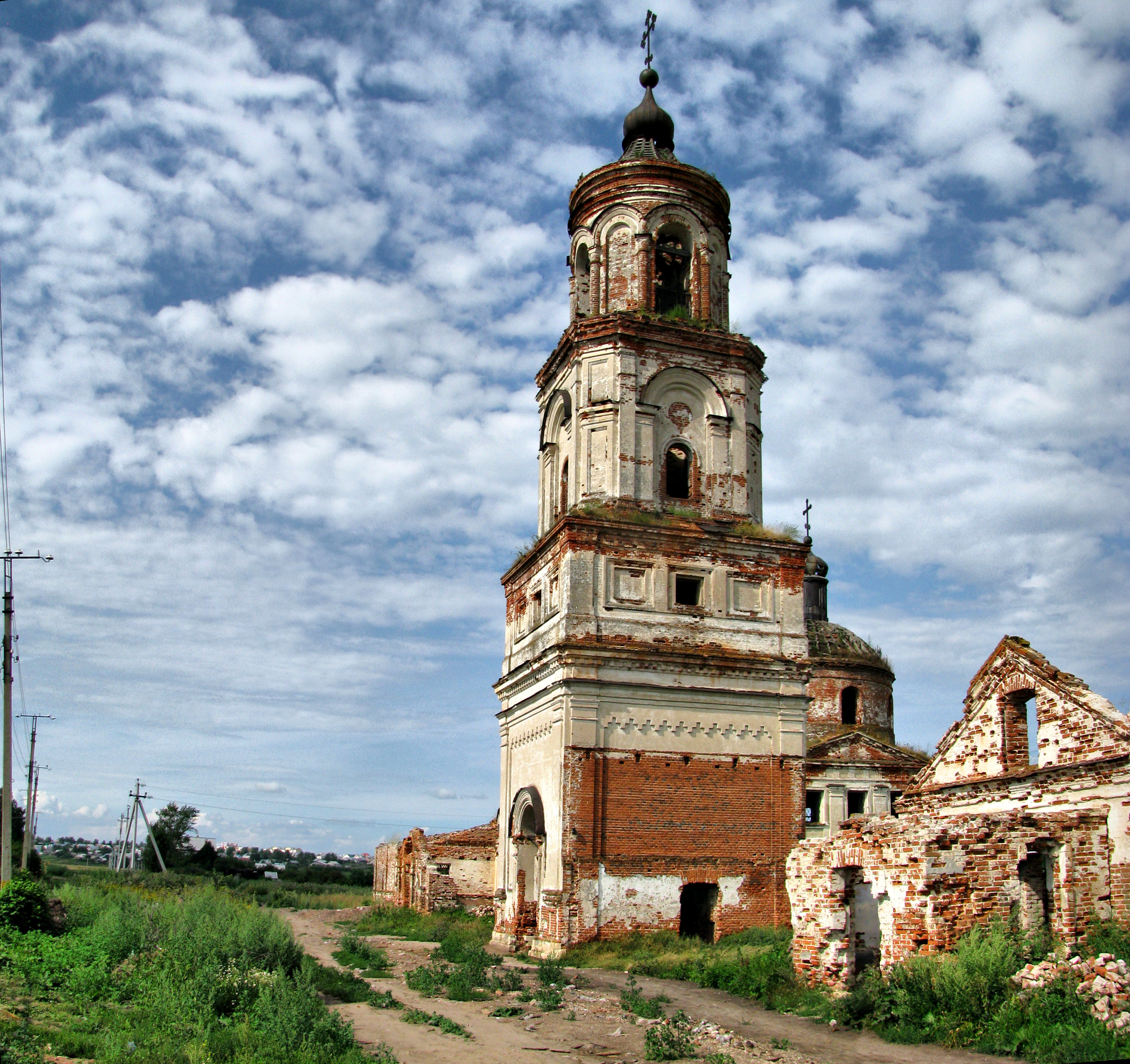 Bell tower in village Zarechnoe, Arzamassky District, Nizhny Novgorod Oblast.